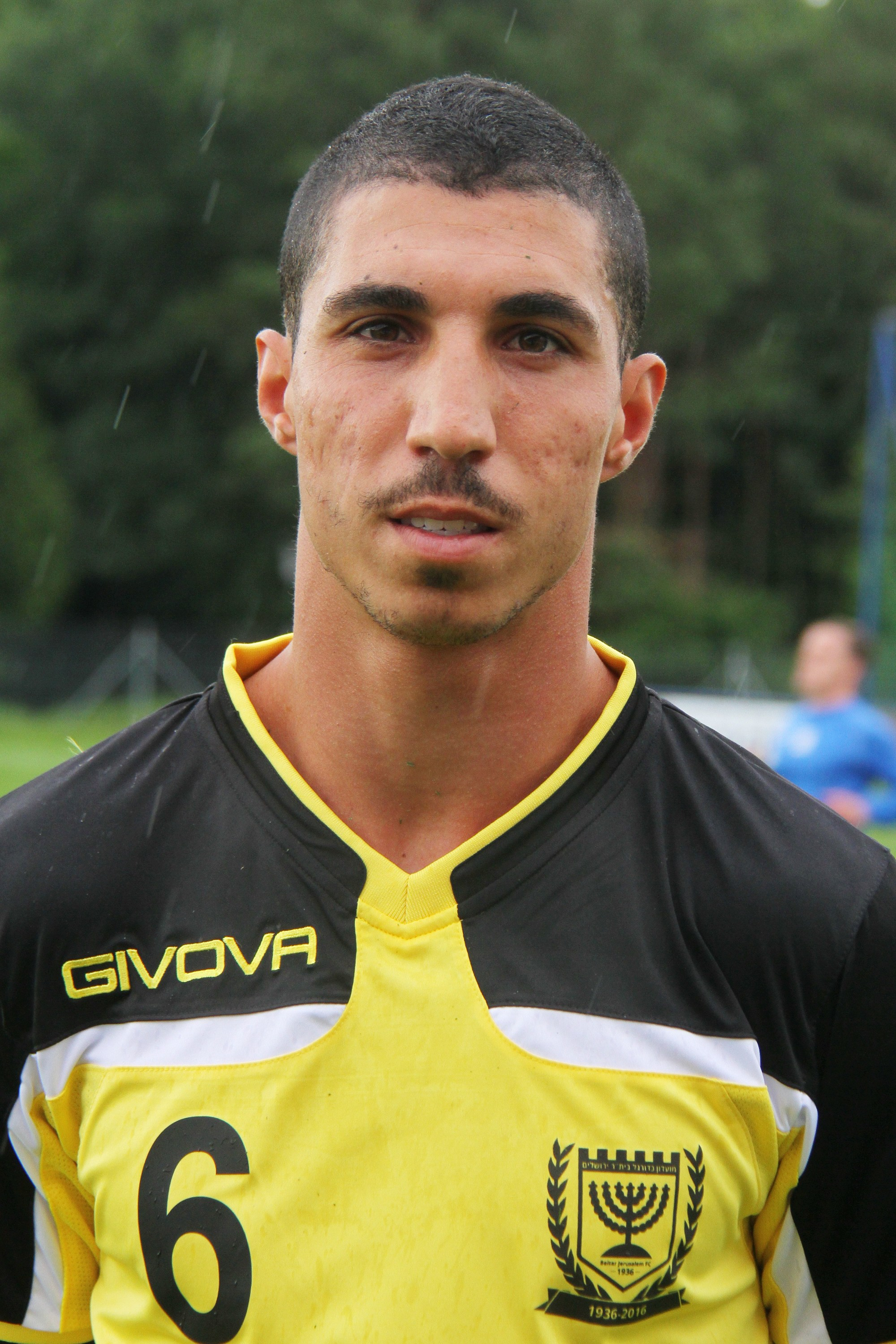 Friendly match between Beitar Jerusalem F.C. (yellow shirts) and MTK Budapest FC (blue shirts) at 2016-06-18 in Bad Erlach (Austria. – The photo shows Tal Khila, Beitar Jerusalem F.C.